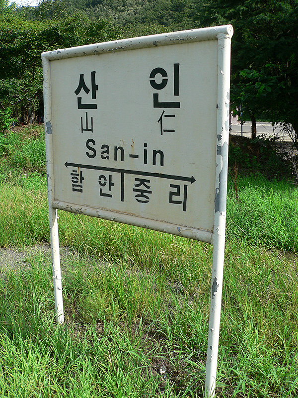 KORAIL Sanin Station nameboard